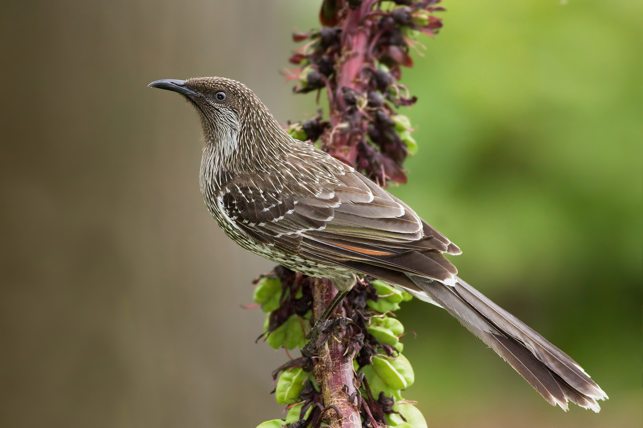 Little Wattlebird (Anthochaera chrysoptera), Austin's Ferry, Tasmania, Australia